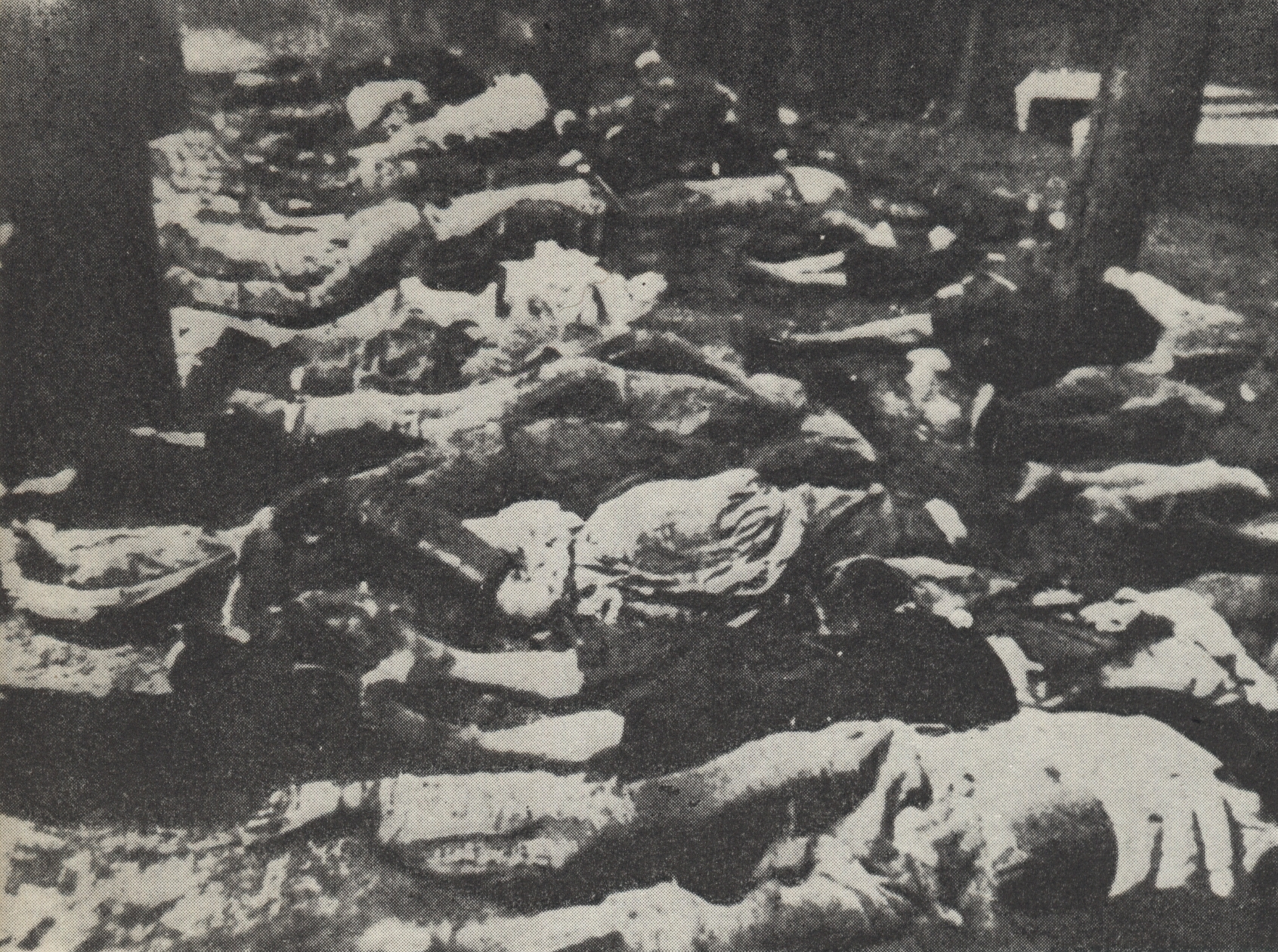 Polish village Sochy in Zamość county, burned by German occupants. On 1st June 1943 Wehrmacht troops destroyed Sochy and murdered 183 of its inhabitants. This photo was taken after the massacre.